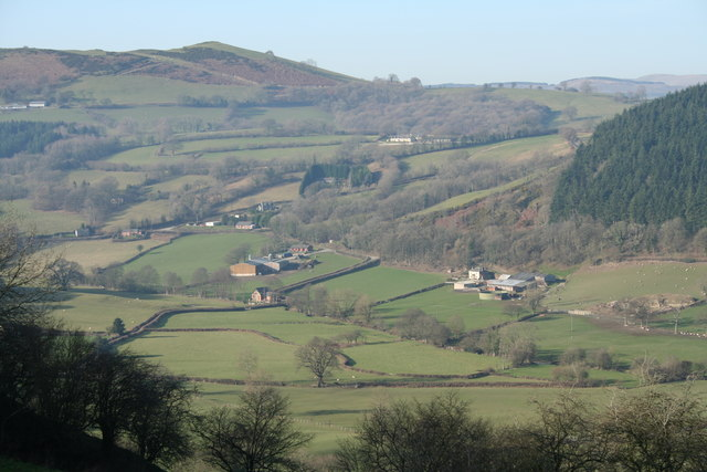 Valley Floor A 240 metre high view point from minor road down to the plain where The Brogan flows.